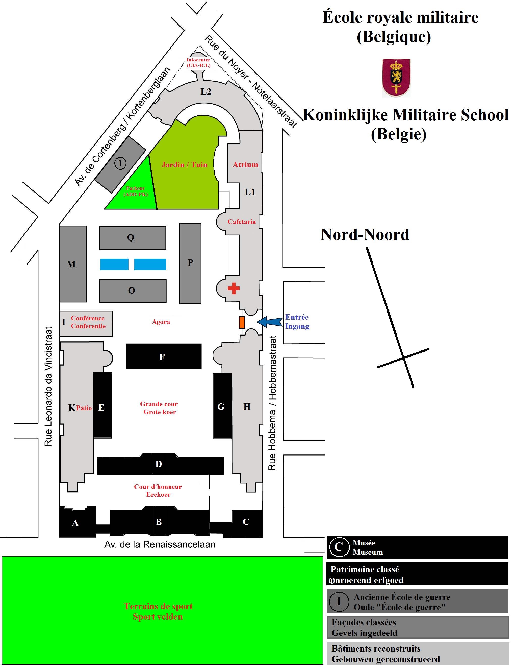 Map of the Belgian Royal Military Academy